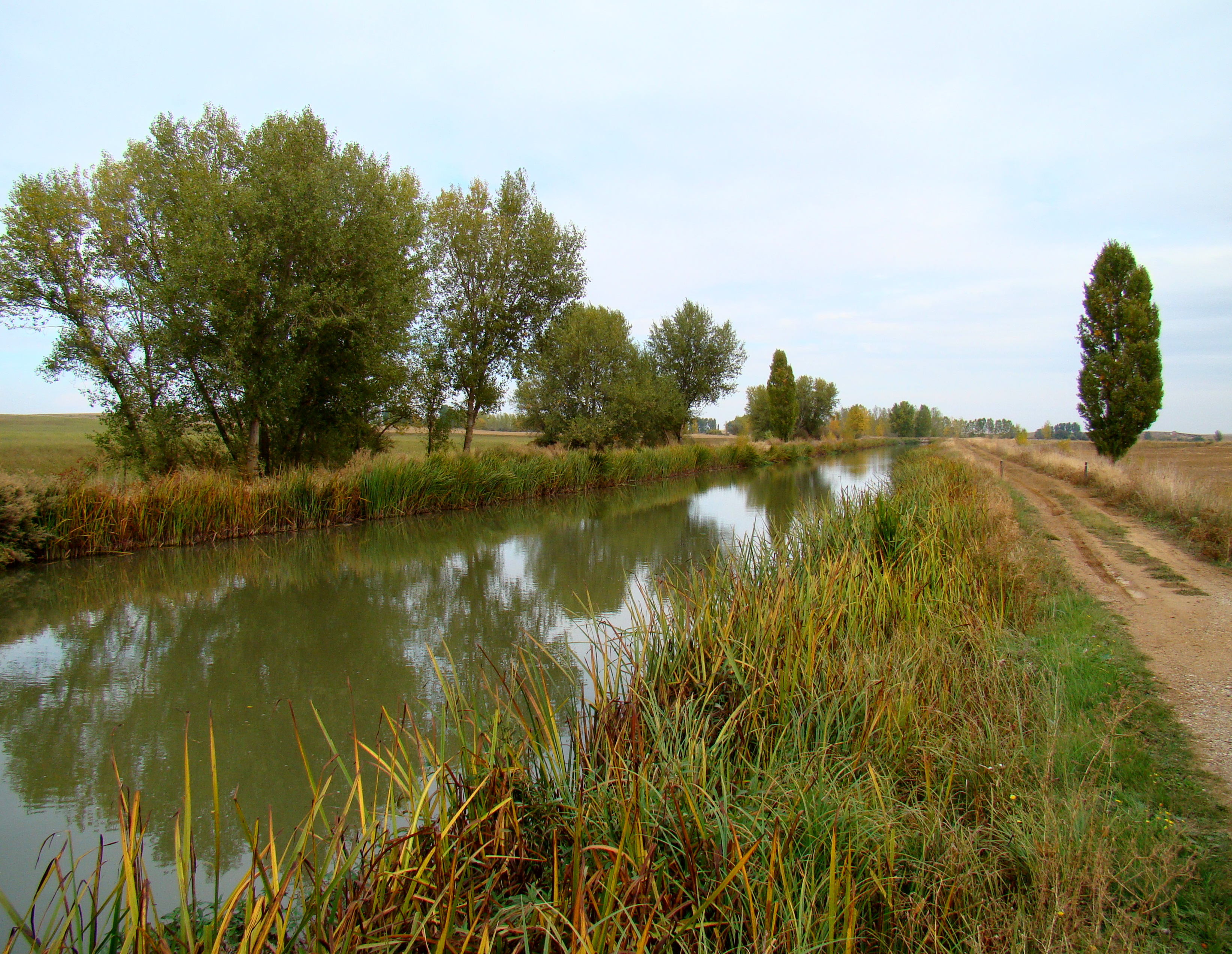 A section of the Channel of Castile east of Fromista, where it follows El Camino de Santiago, the Way of Saint James, for a few kilometres.